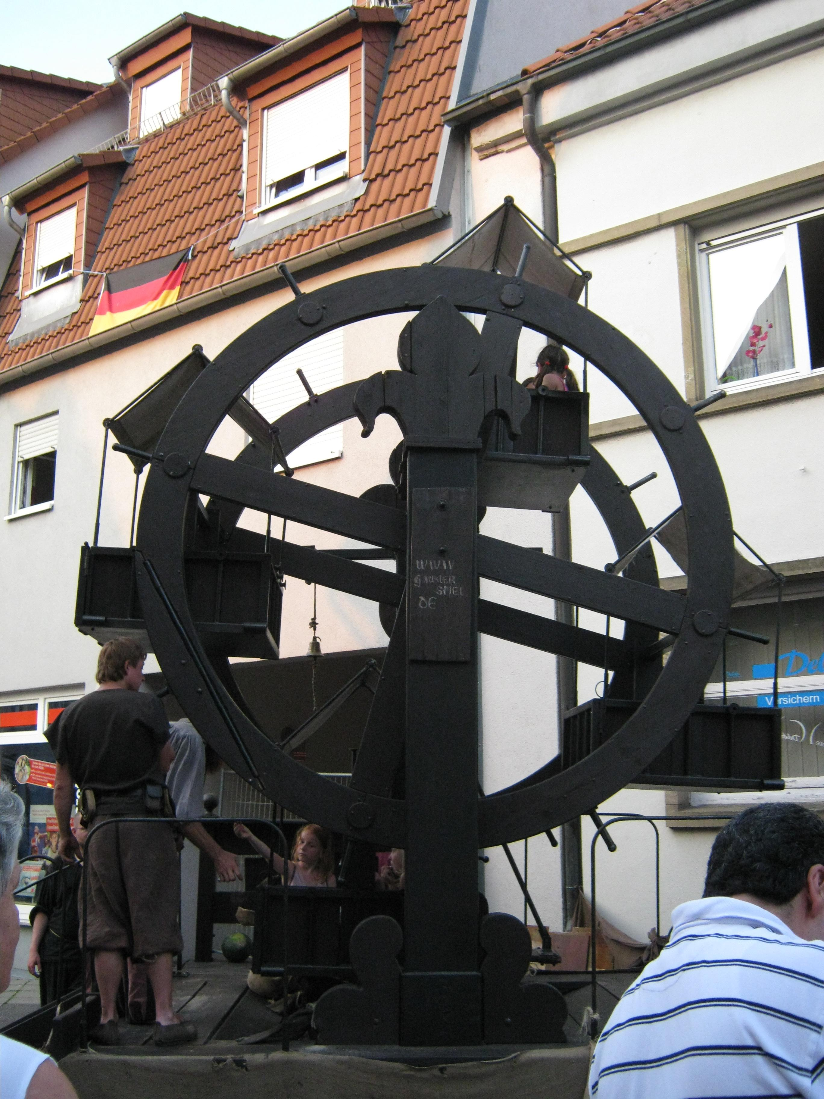 Manually operated Ferris Wheel on Peter-and-Pauls-Festival on July 4th, 2010